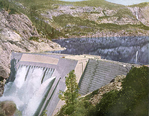 Original O'Shaughnessy Dam in California after completion in 1923. Hand colored photograph.